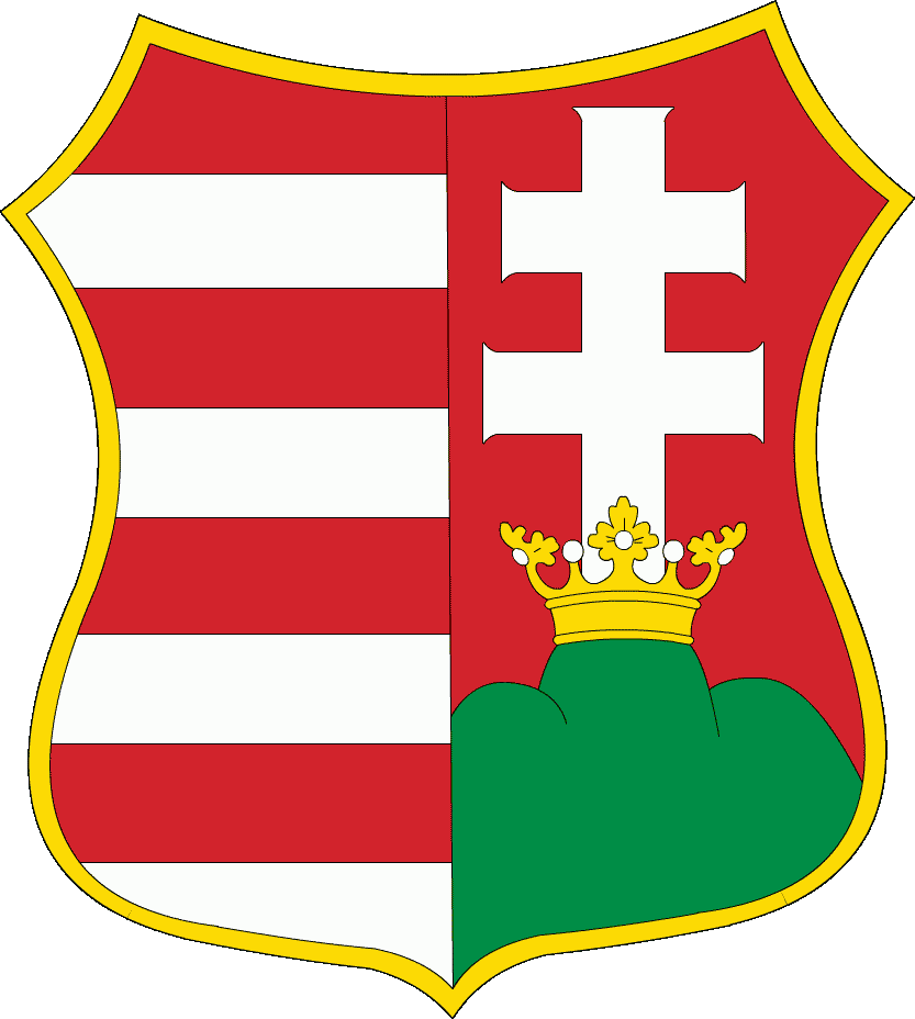 Coat of Arms of Hungary without the Holy Crown, generally referred to as "Kossuth CoA". Used during the revolutions of 1848-49 and 1956.